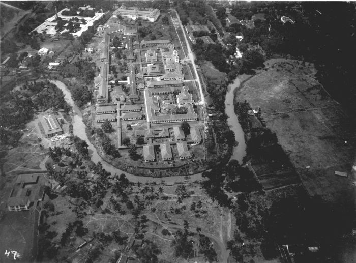 Aerial view of the buildings of the Stovia, the Centrale Burgerlijke Ziekeninrichting (CBZ), the Medical Laboratory and Opium Factory, Weltevreden